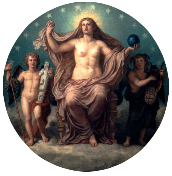 Ceiling painting above the grand staircase of the Oldenburg Augusteum